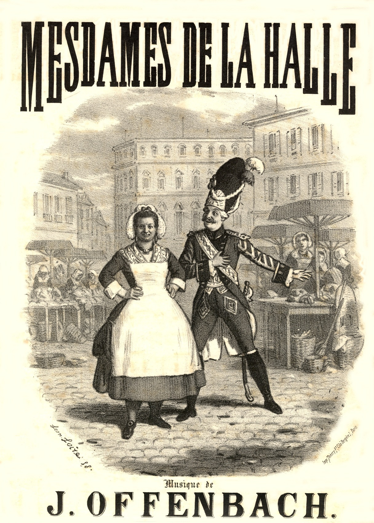 Jacques Offenbach's operetta Mesdames de la Halle, title page with engraving by Léon Loire. Charles-François Duvernoy as tambourmajor Raflafla et Désiré as Mme Madou